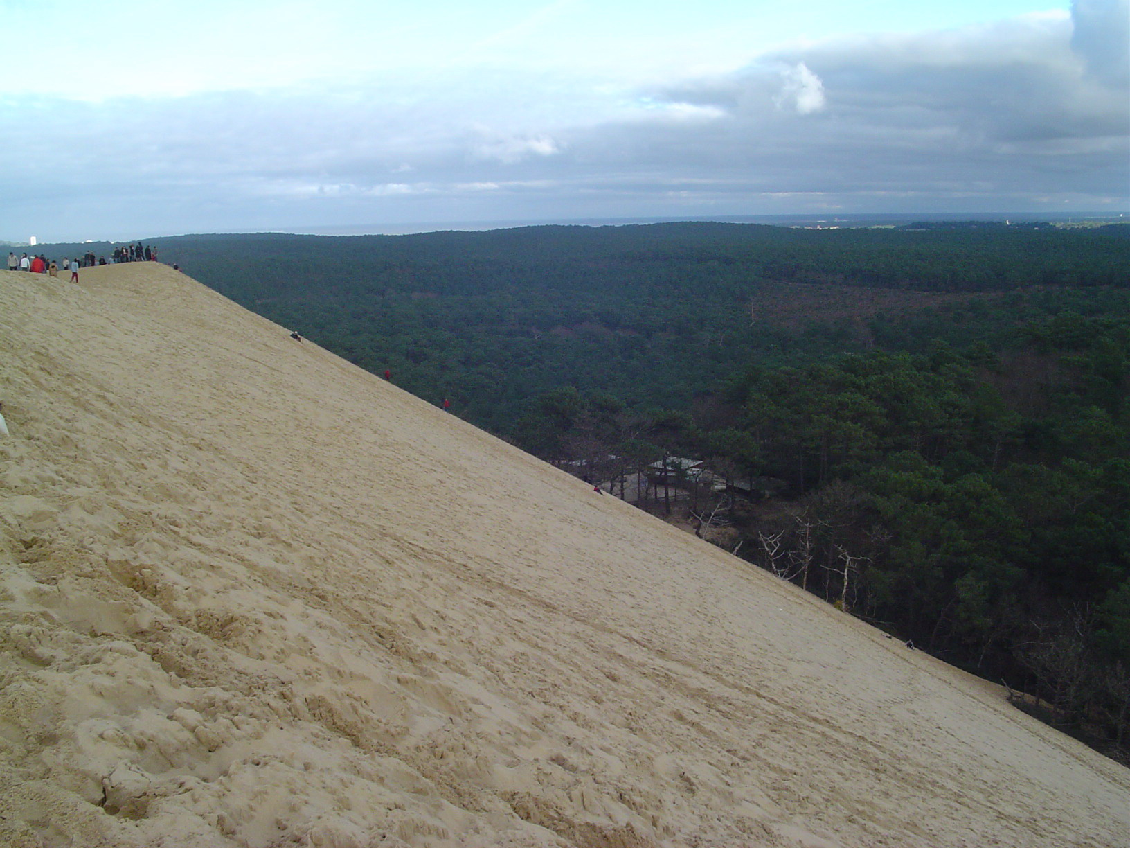 Visitors enjoying the scenery of the Landes from the eastern side and on the crest of The Great Dune of Pyla, whose maximum elevation is 107 m, making it the tallest sand dune in Europe. The slope has an average gradient between 30 and 40º.